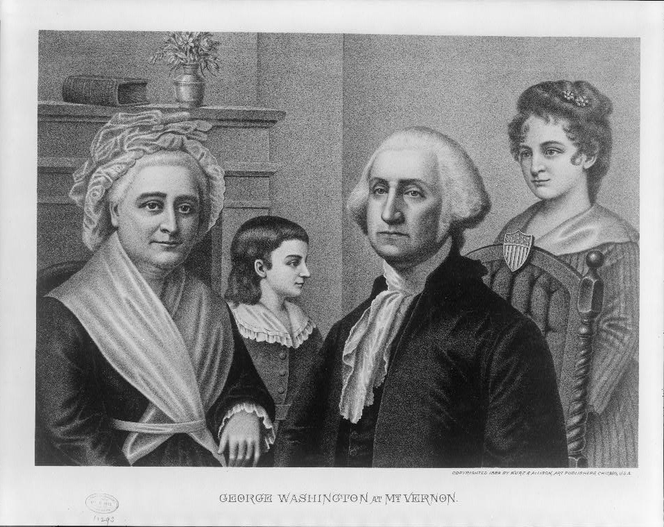 George Washington at Mt. Vernon. George Washington seated, half-length, with Martha Washington, and two children. (cropped)